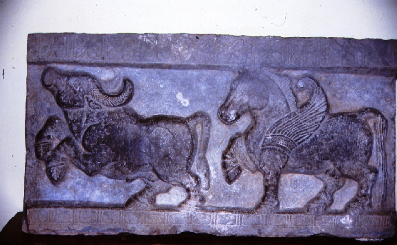 A frieze from Karnataka, India, featuring a bull and a winged horse.